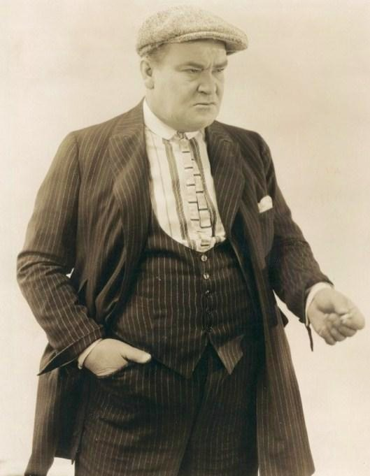 George Siegmann in the American drama film Fools First (1922) - publicity still (original image damaged, modified and cropped : see source)